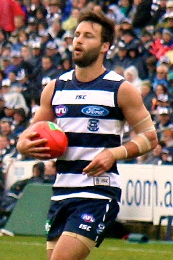 Jimmy Bartel lines up for goal in Round 19 of the 2011 AFL season